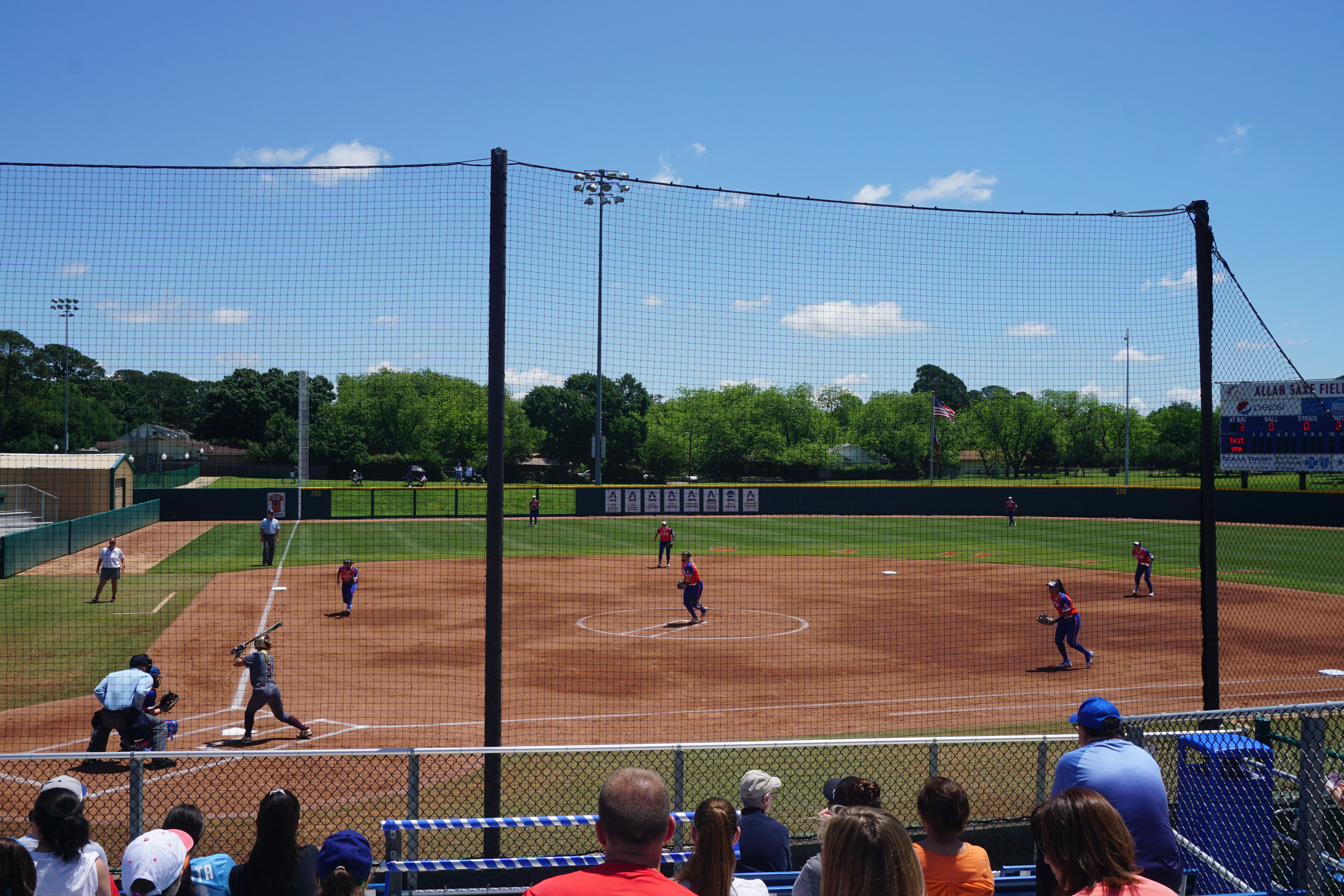 In-game action during the Texas State Bobcats vs. UT Arlington Mavericks softball game at Allan Saxe Field in Arlington, Texas (United States). UT Arlington won 8–7.